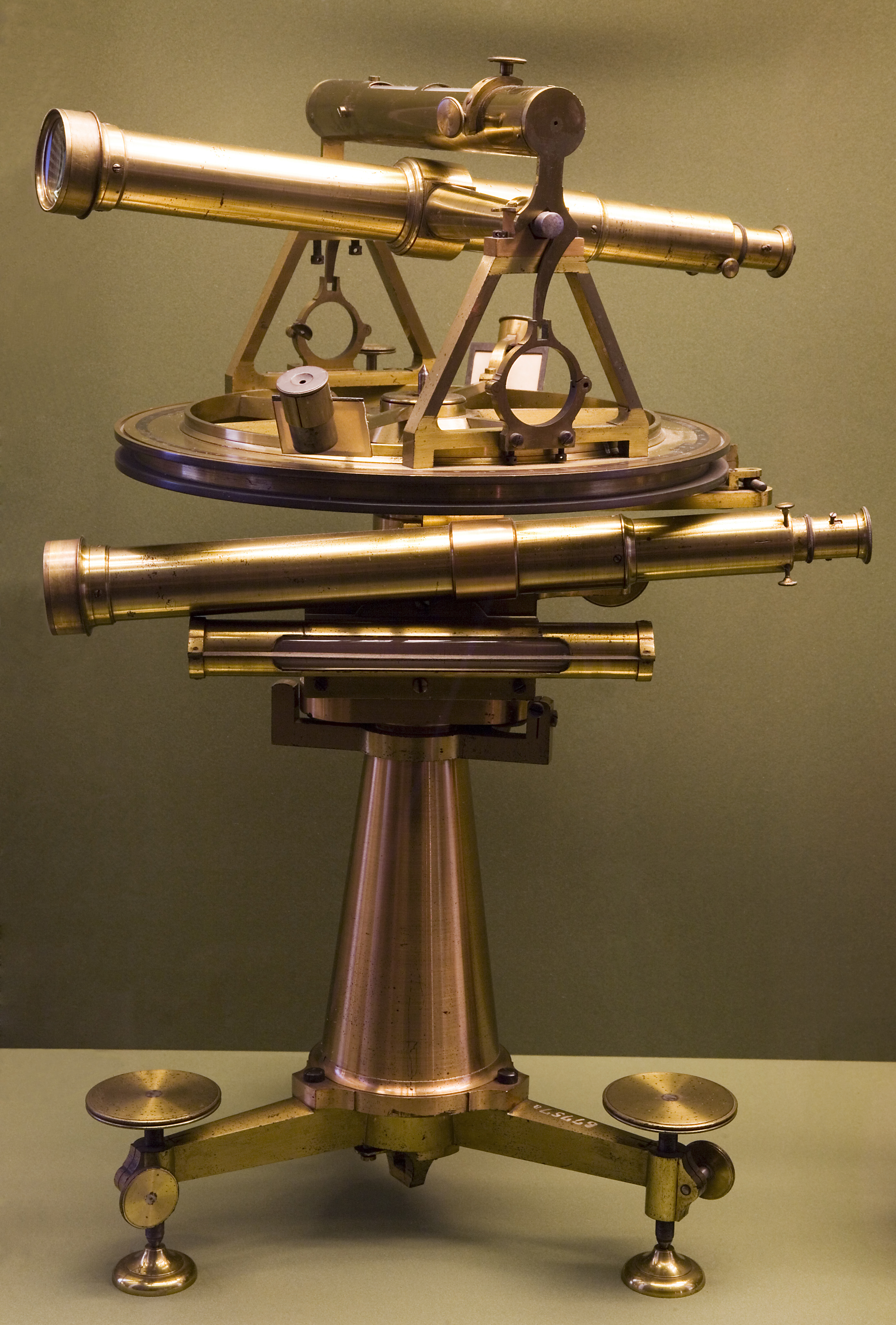 Bronze universal theodolite 1800